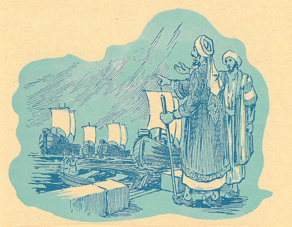 A drawing of Muslim ships breaking water in preparence to the Battle of Dhāt al-Ṣawārī (Battle of the Masts)